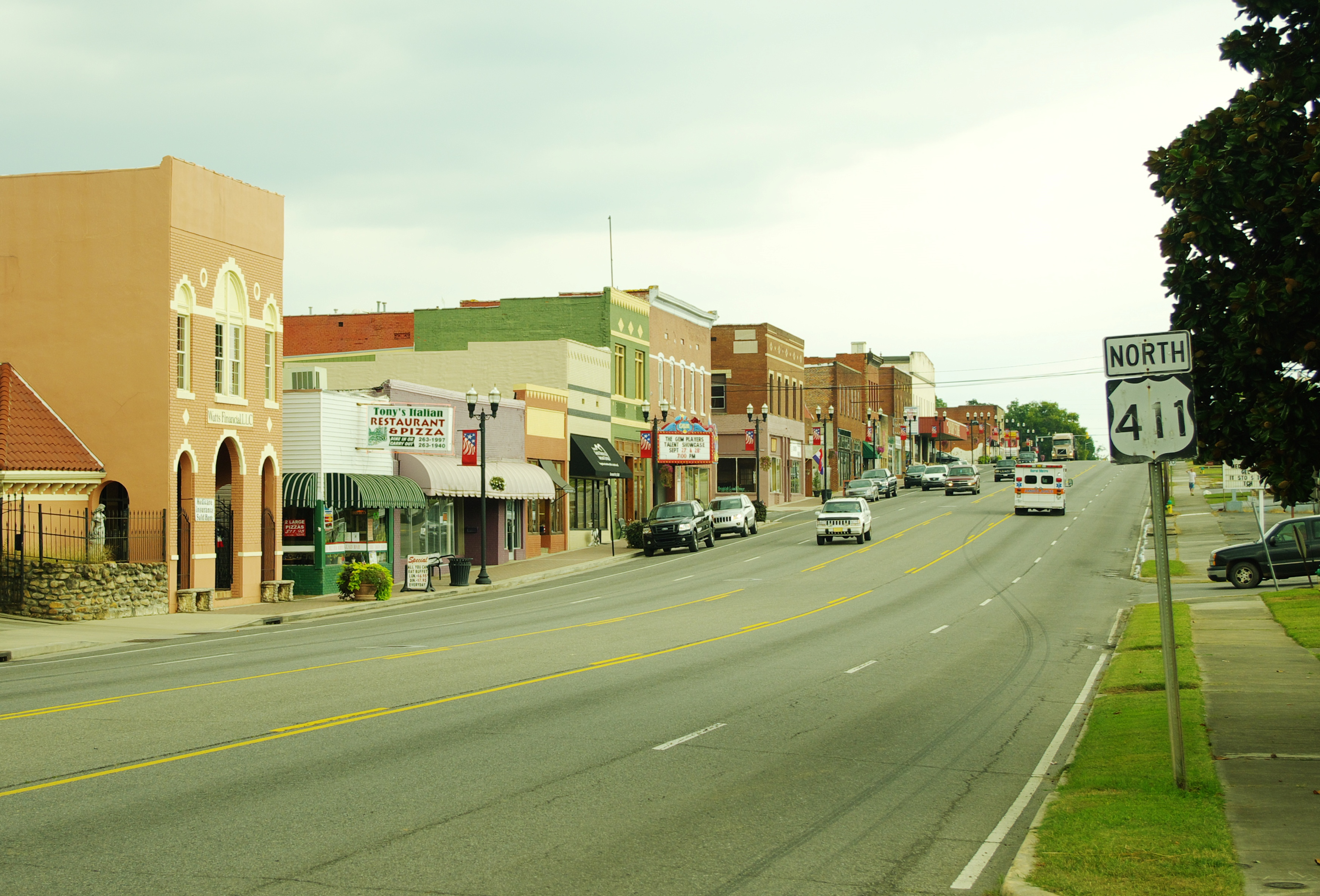 U.S. Highway 411 in Etowah, Tennessee, United States.